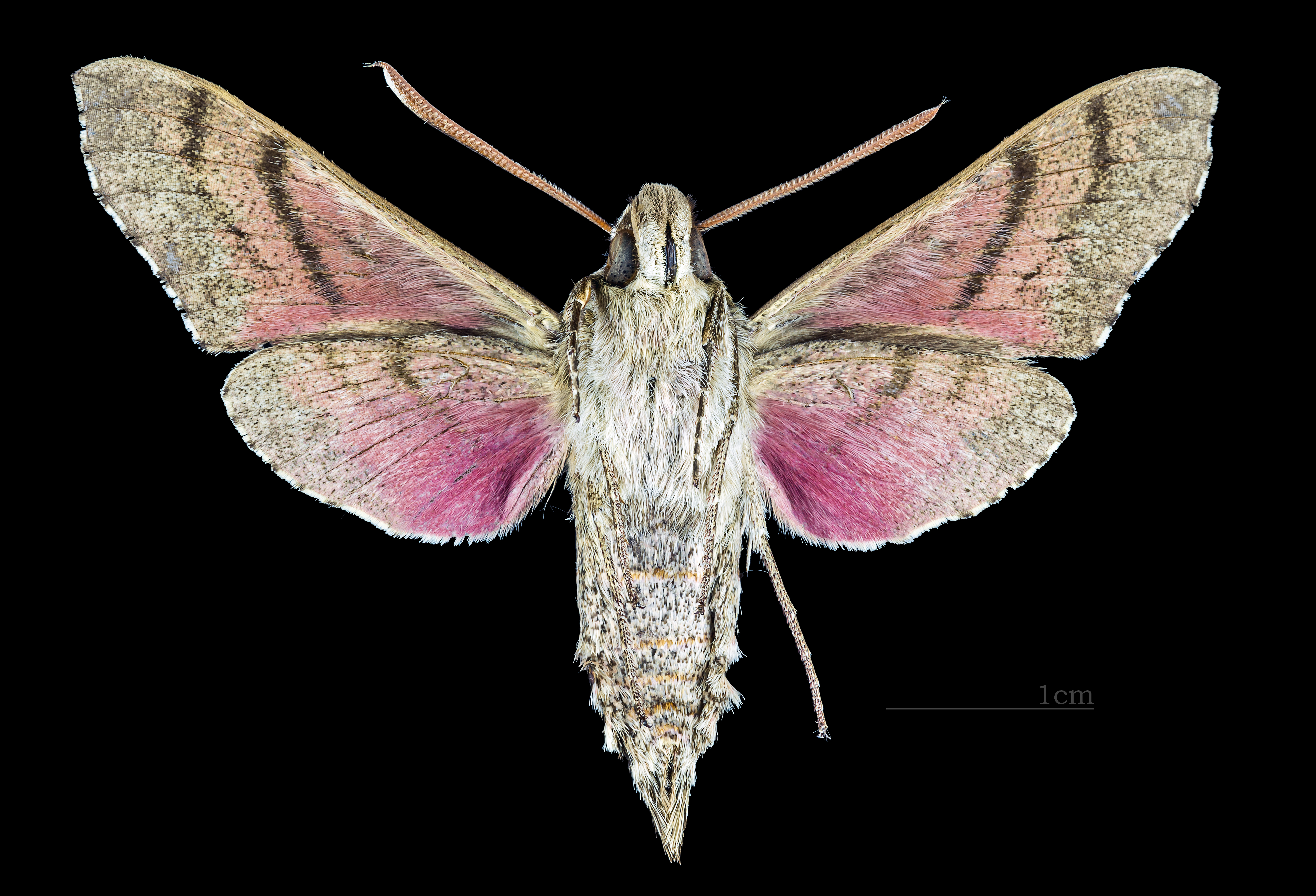 Perkin's sphinx - △ Ventral side